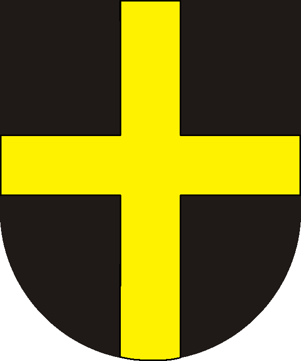 Coat of arms of the Roman-Catholic Diocese of Rottenburg